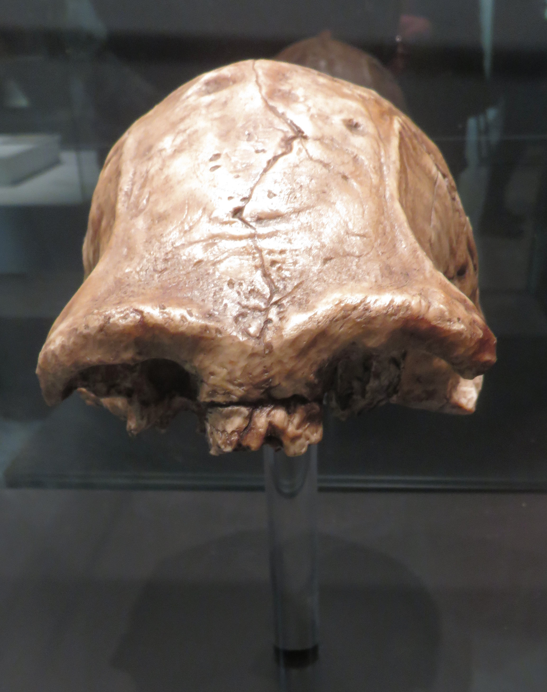 Dmanisi skull D 2280 (= Skull 1, Replika)